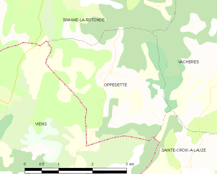 Map commune FR insee code 04142.png Légende